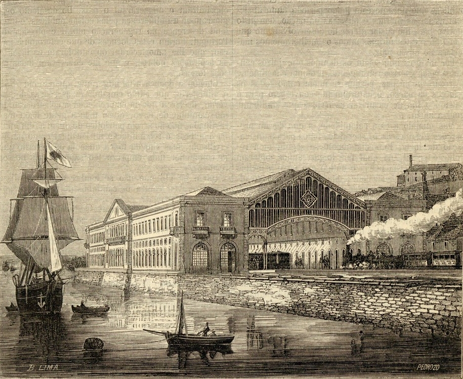 Santa Apolónia Railway Station, in the city of Lisbon, Portugal. This image was originally published on the Archivo Pittoresco n.º 1, 9th year, of 1866, and scanned by the Hemeroteca Municipal de Lisboa.